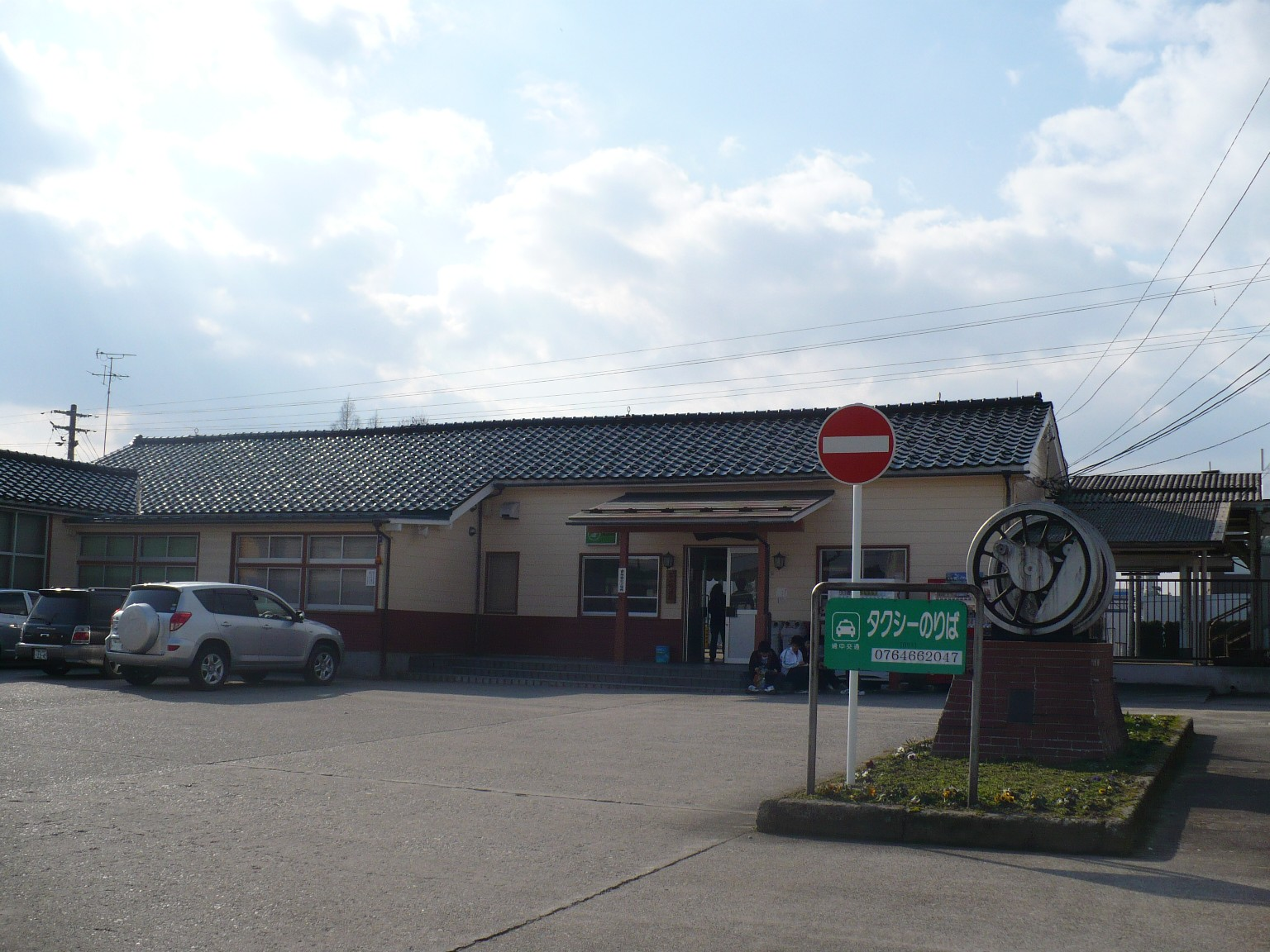 Front view of Hayahoshi station, Takayama main line of West Japan Railway Company, Toyama city Toyama prefecture, Japan